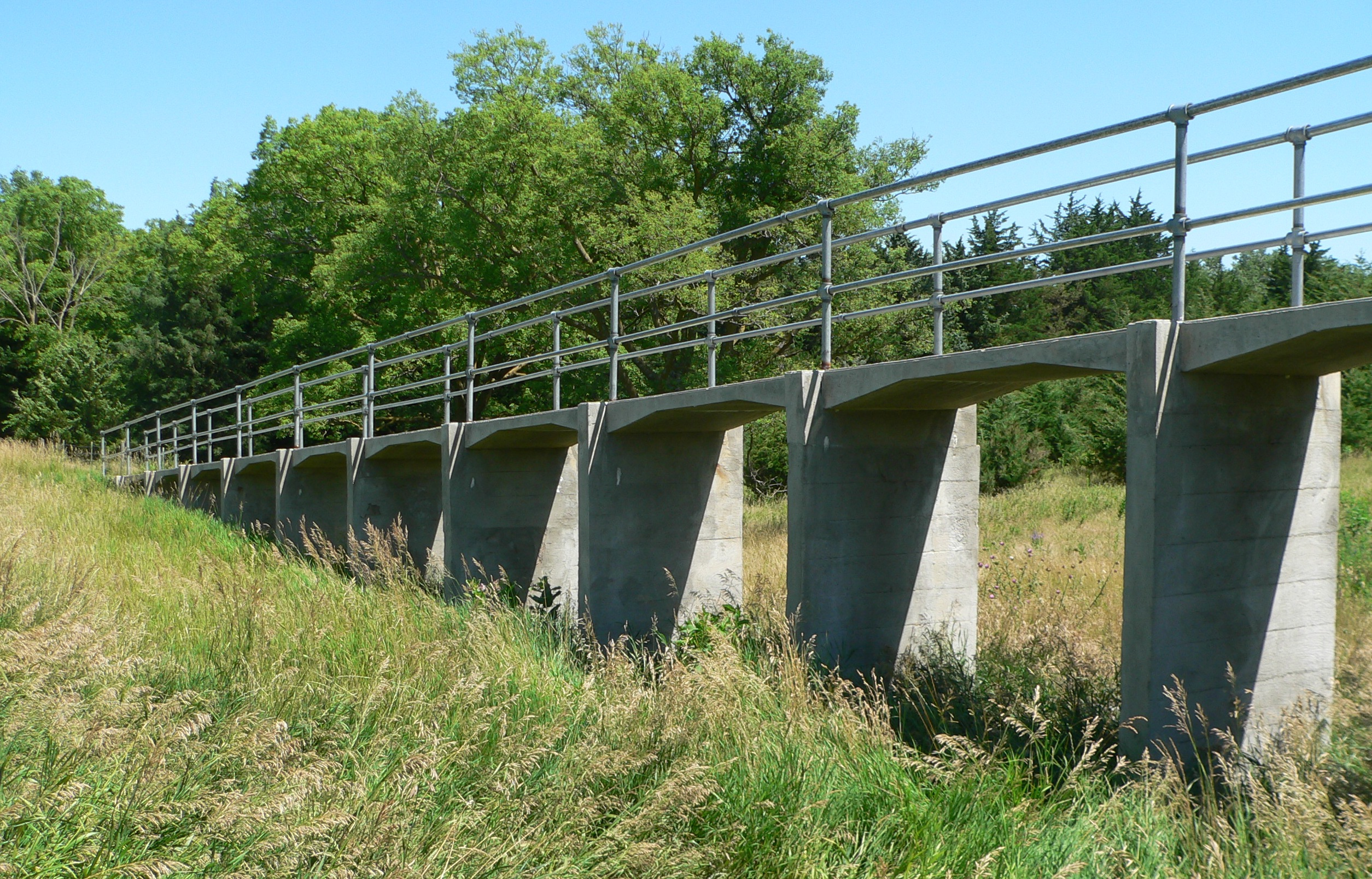 West slope of Nelson Cemetery Walk on the outskirts of Nelson, Nebraska; seen from the northwest. The walk begins at the northeast corner of the cemetery, outside of the frame to the right; descends eastward (right to left) into an ephemeral stream channel, where the rails end at left; then rises again eastward outside of the frame, toward the city of Nelson. The walk was constructed in 1912, and is listed in the National Register of Historic Places.